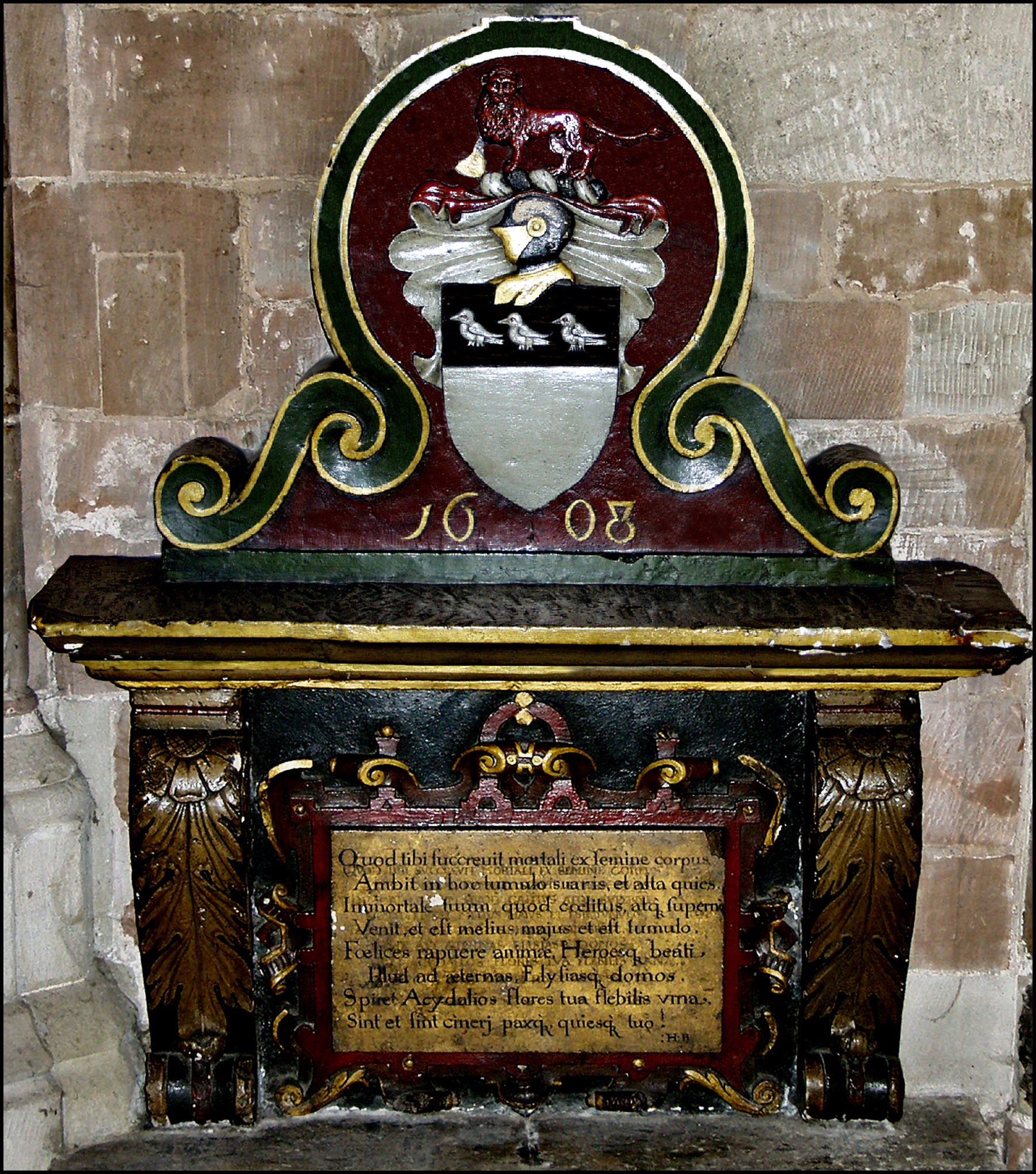 tomb of Wyilde in Worcester Cathedral